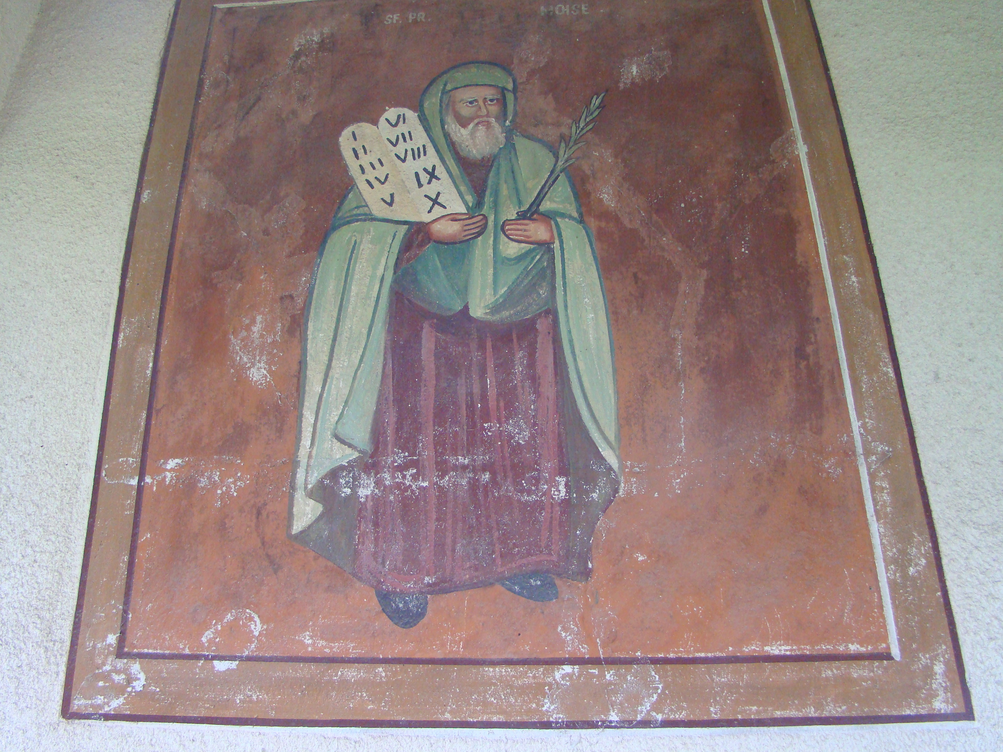 Wooden church in Urechești, Gorj county, Romania